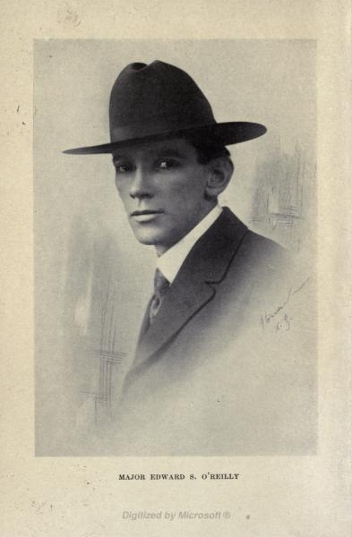 Photo portrait of Edward S. (Tex) O'Reilly (1880-1946), American soldier of fortune, writer, journalist and actor.